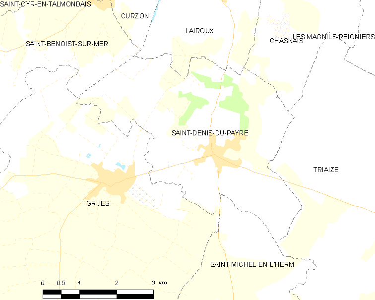 Map of French municipality Saint-Denis-du-Payré